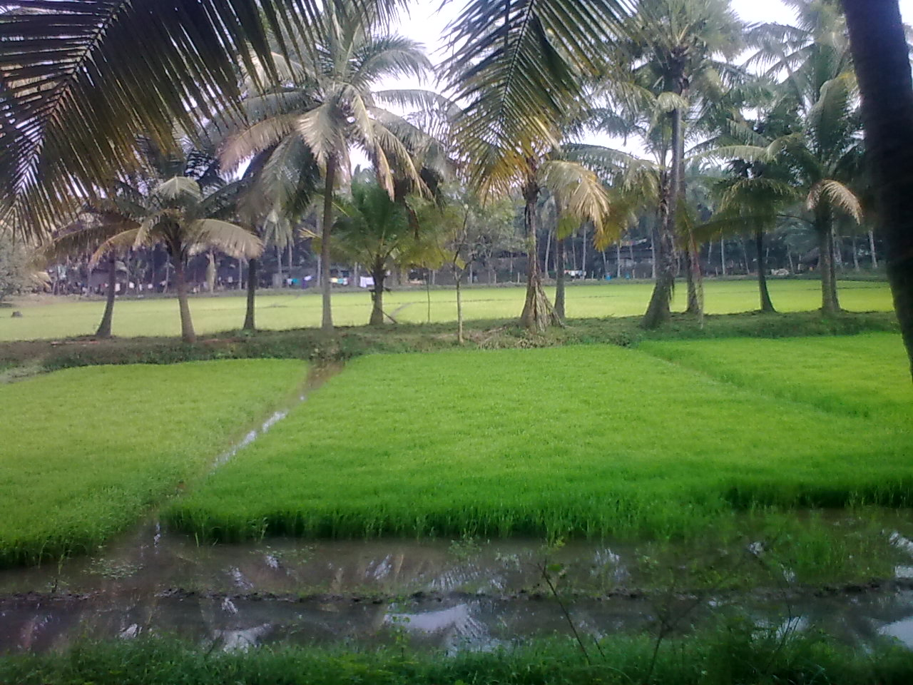 A. Vemavarappadu